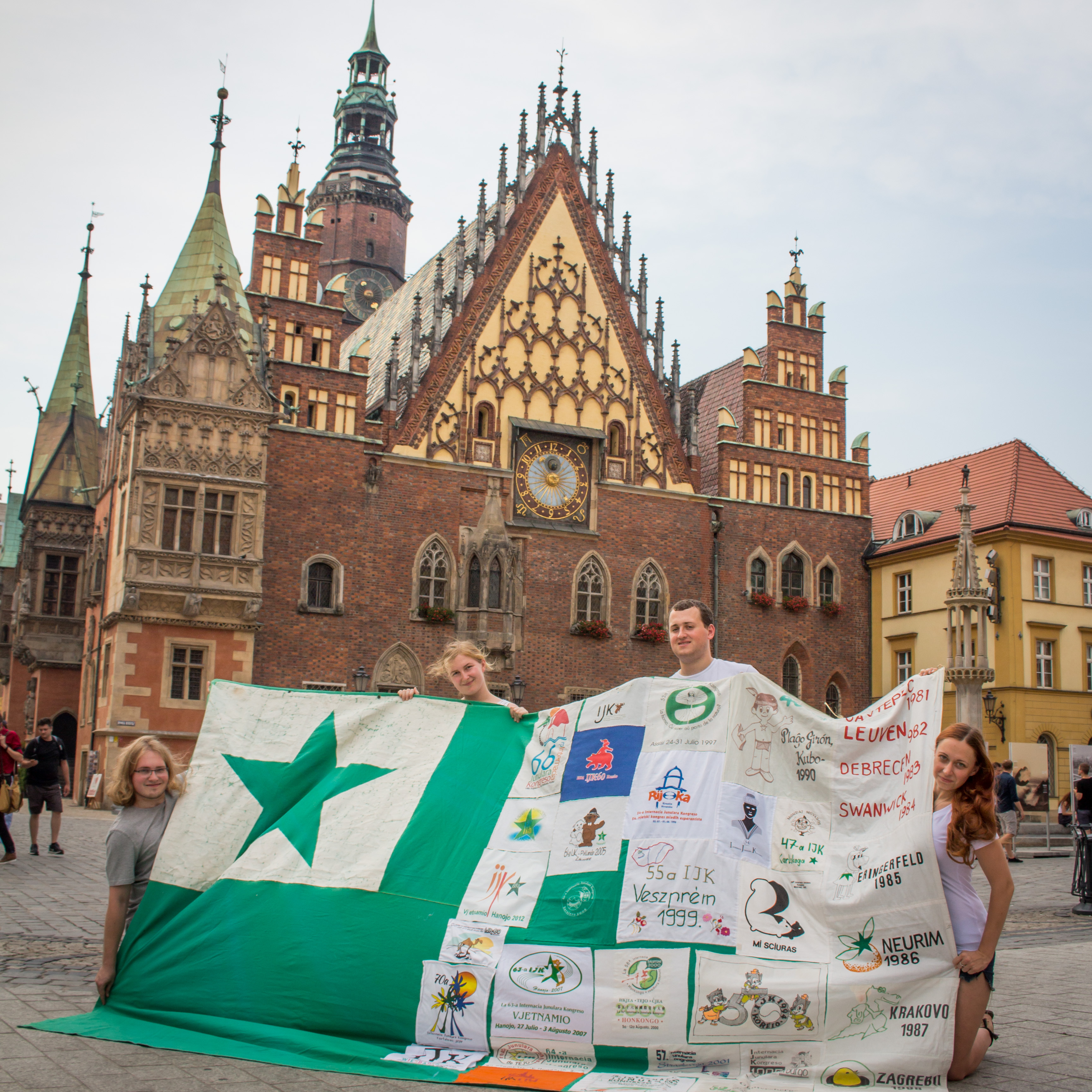 The Congress Flag of the International Youth Congress of Esperanto before the Wrocław Town Hall.